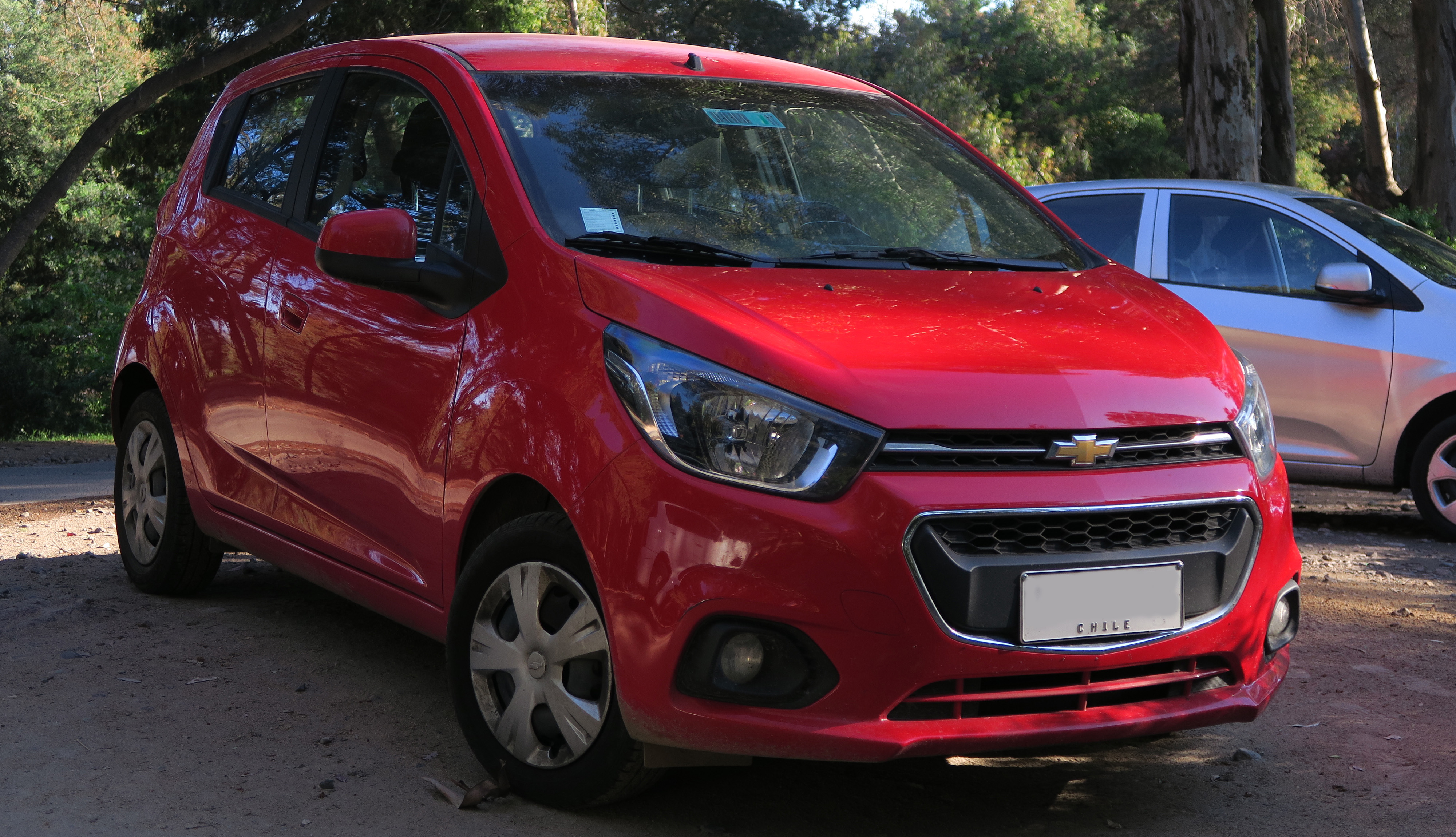 Chevrolet Spark GT in Chile